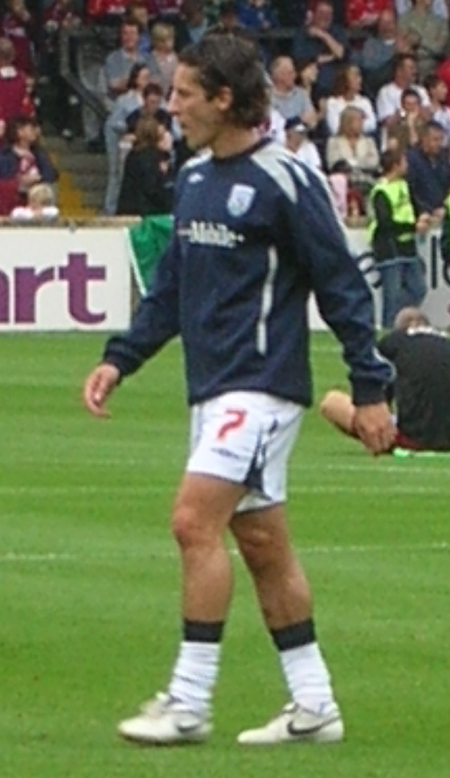 Slovenian football (soccer) player Robert Koren of West Bromwich Albion, warming up prior to a match against Scunthorpe United at Glanford Park on 2007-09-22